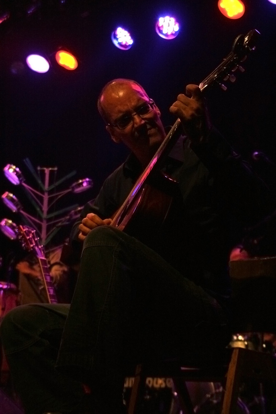 Pedro Tagliani, concert with Stella Jones at the jazz club Porgy & Bess during the Jazz Festival 2008 in Vienna